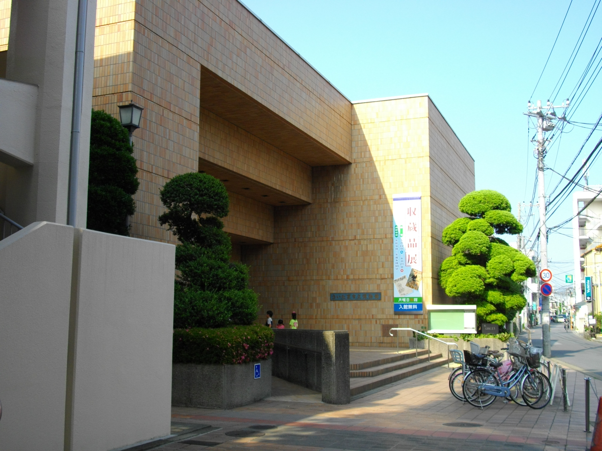 Saitama Municipal Museum